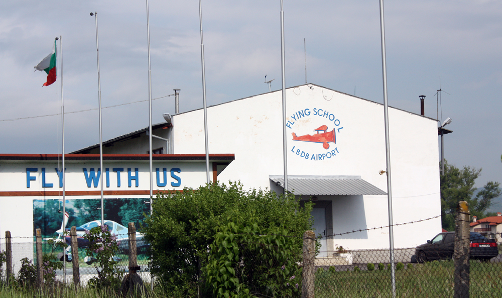 Dolna Banya Flying school